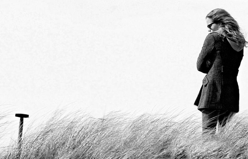 Emma Watson filming for Harry Potter and the Deathly Hallows at Freshwater West, Pembrokeshire in May 2009.